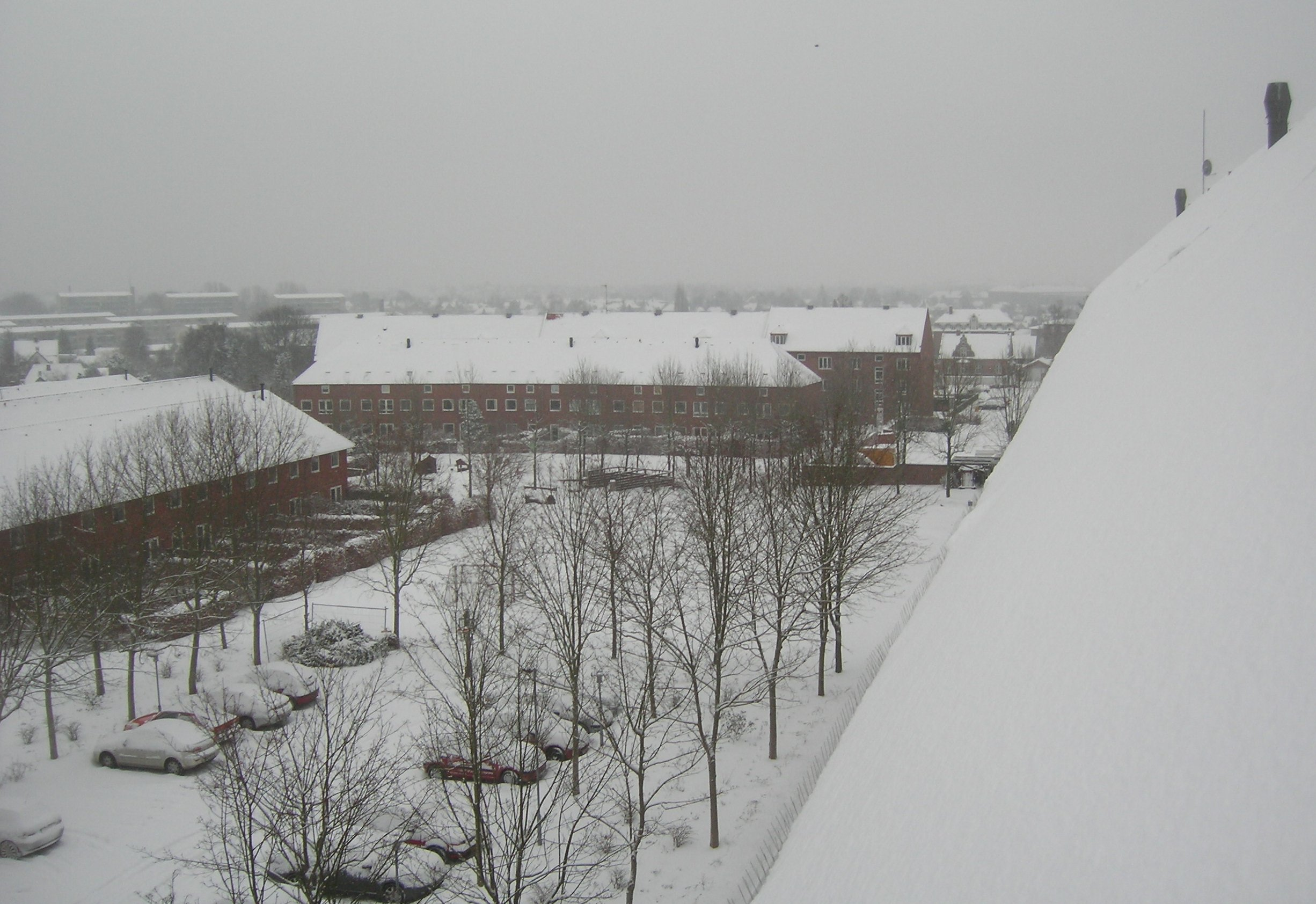 Høje Søborg Øst in the snow